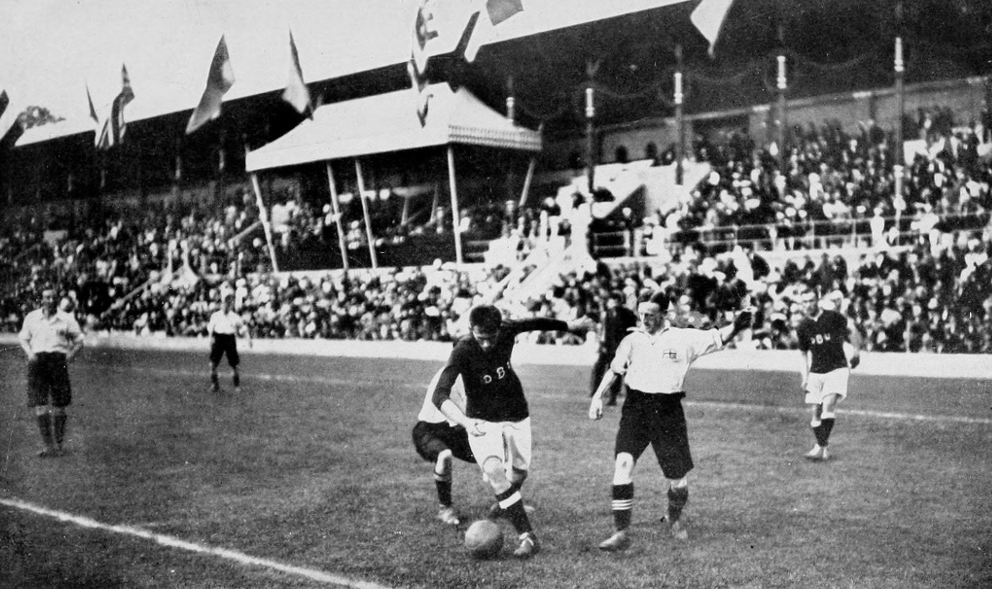 Great Britain vs. Denmark: Final of the football tournament at the 1912 Summer Olympics in Stockholm